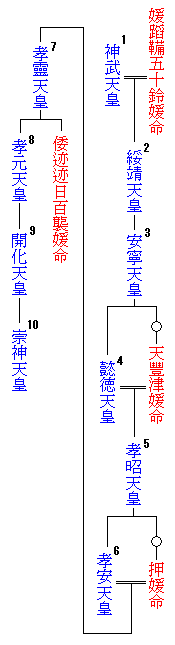 Family tree of the emperor of japan, from 1st to 10th 天皇家系図 1代～10代